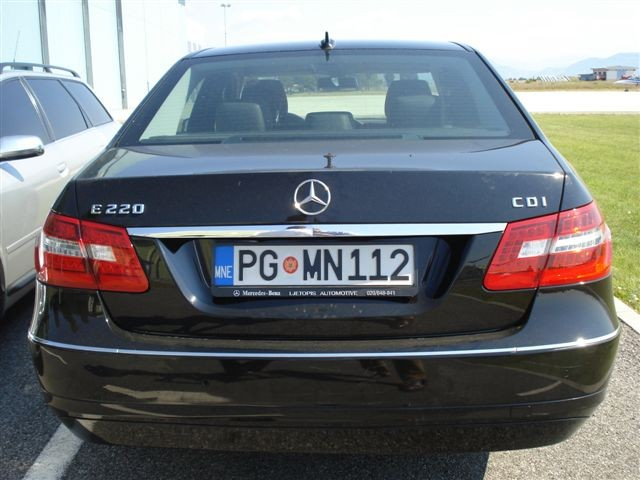 A vehicle registered in Podgorica.